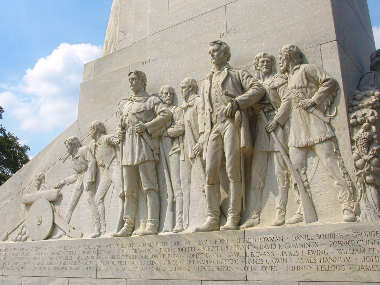 Alamo Memorial with Bonham and Bowie